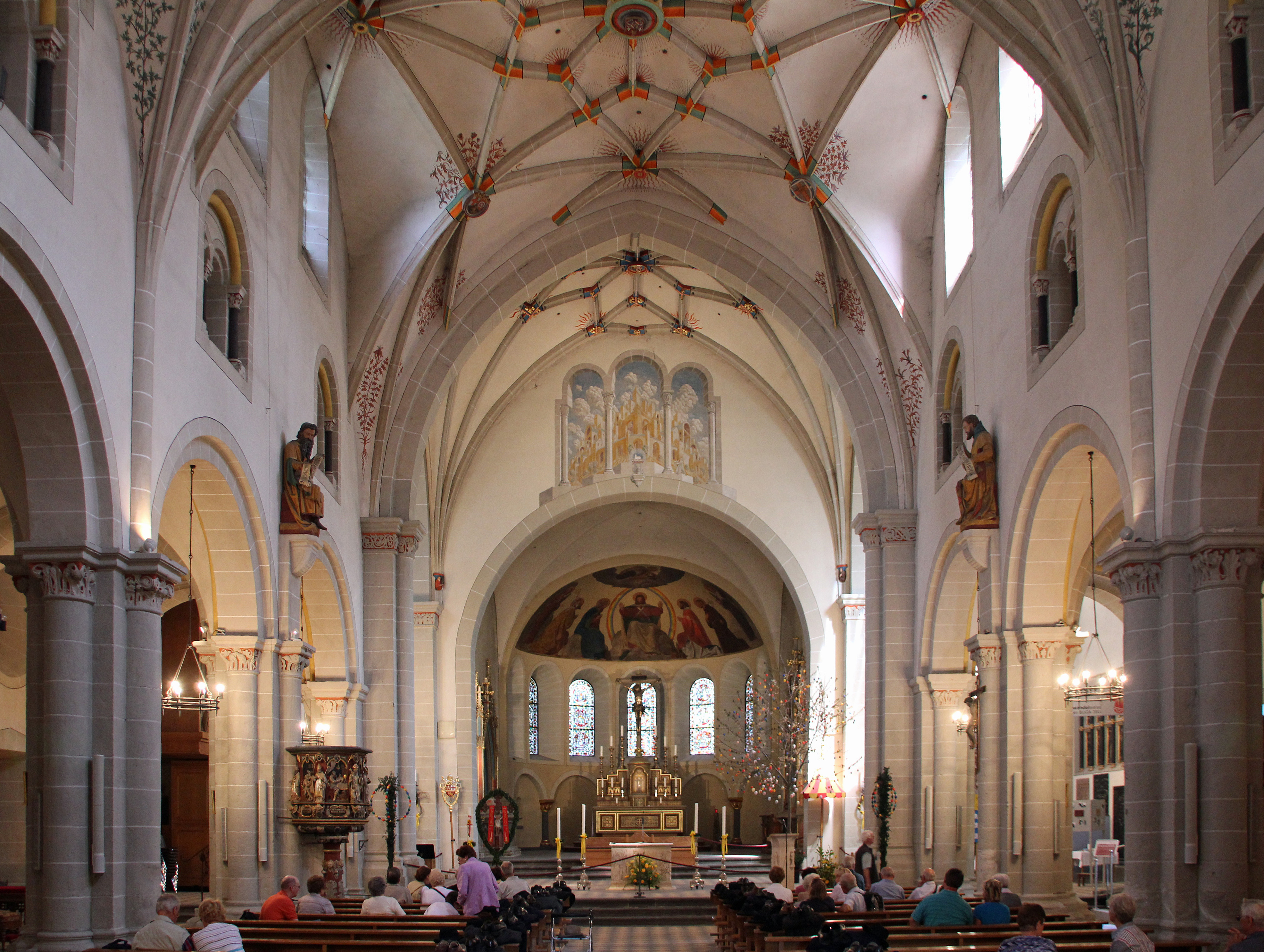 Basilica of St. Castor in Koblenz